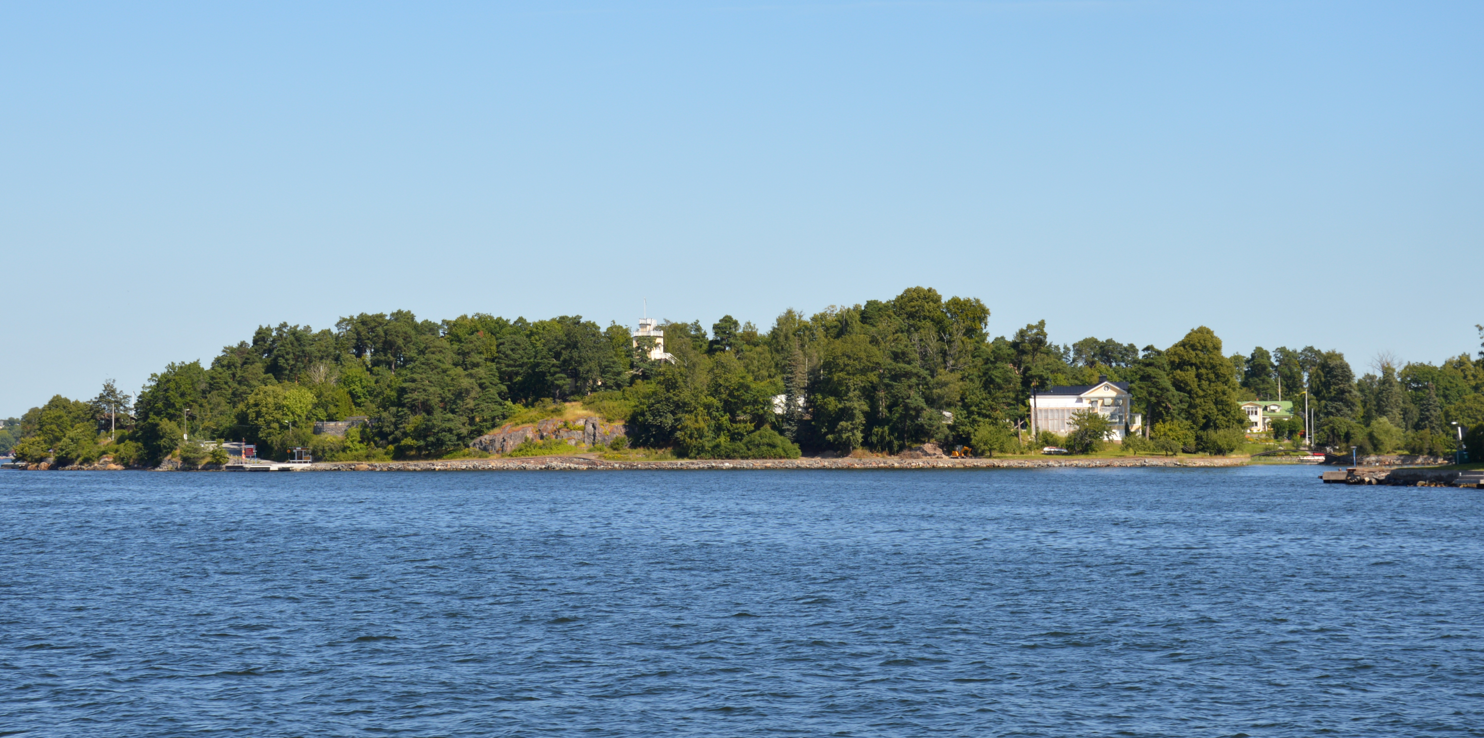 The western end of Tynningö island.